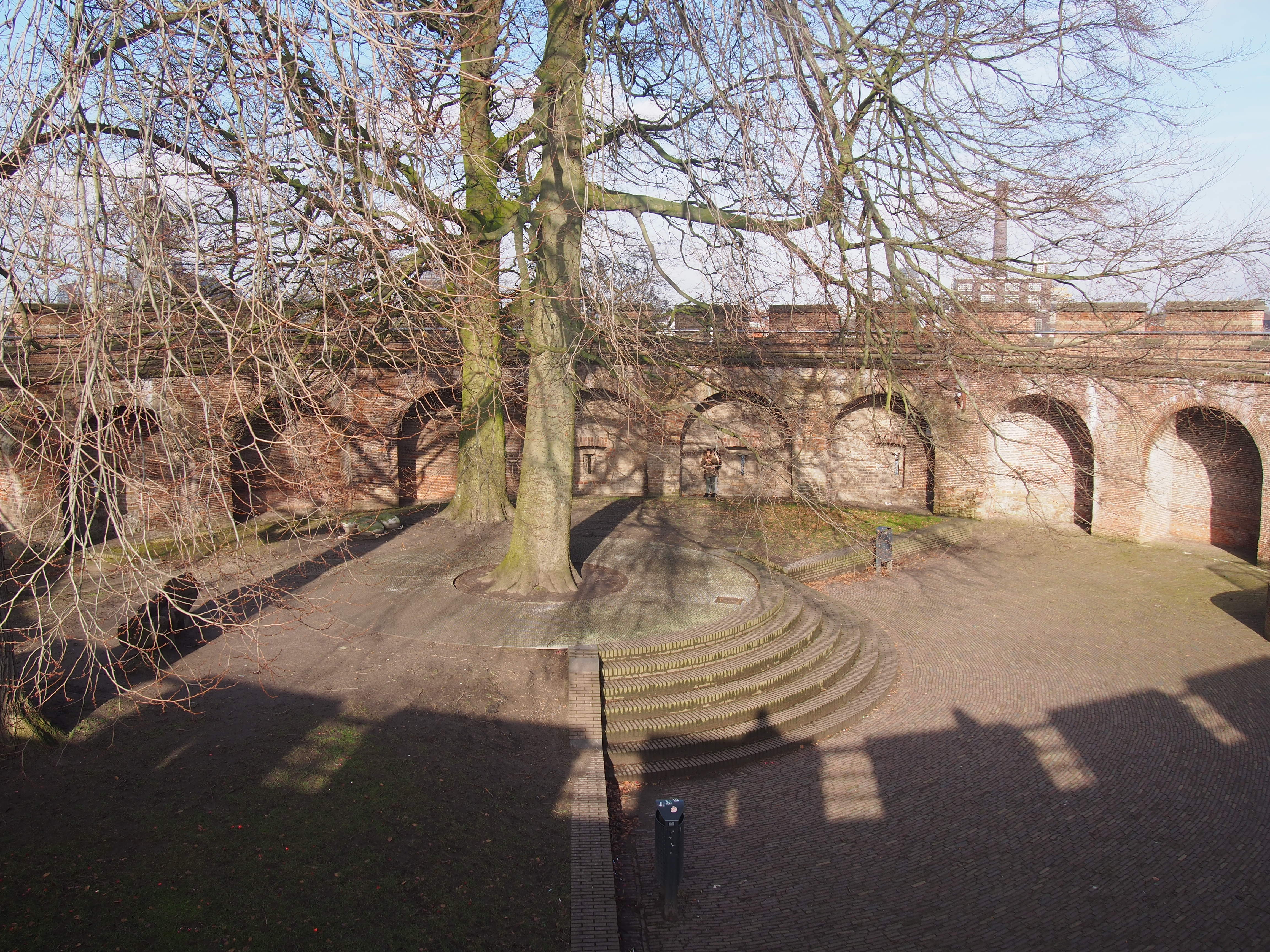 The interior of the Leiden Fortress.